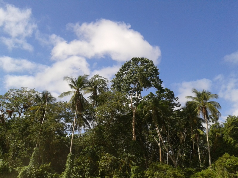 Orinoco River Forest. Delta Amacuro. Venezuela.